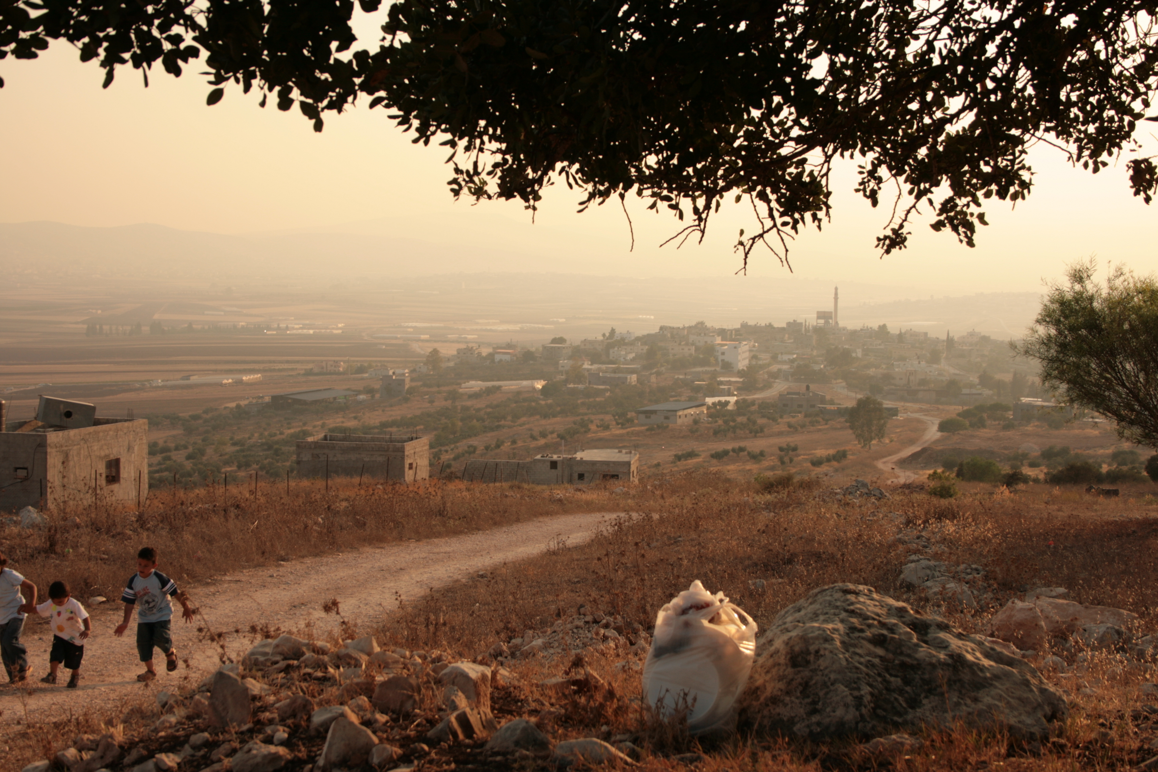 The village of Deir Ghazaleh, taken from a hill nearby.